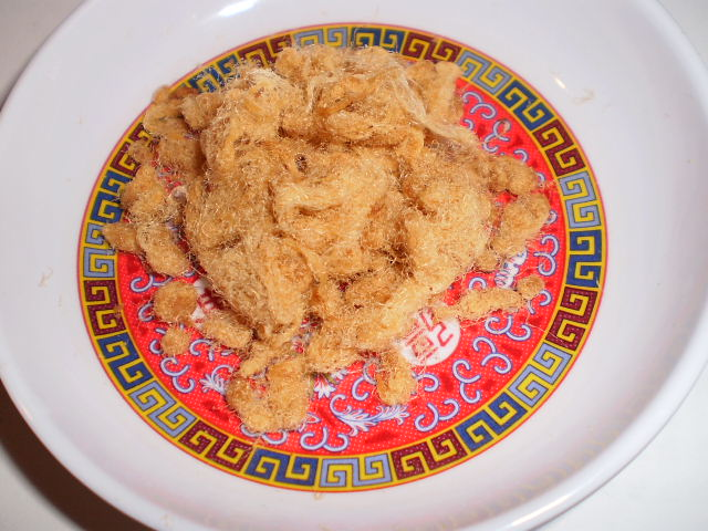 Fuzhou Pork Floss